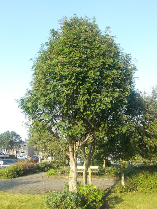 Rowan, Sorbus aucuparia